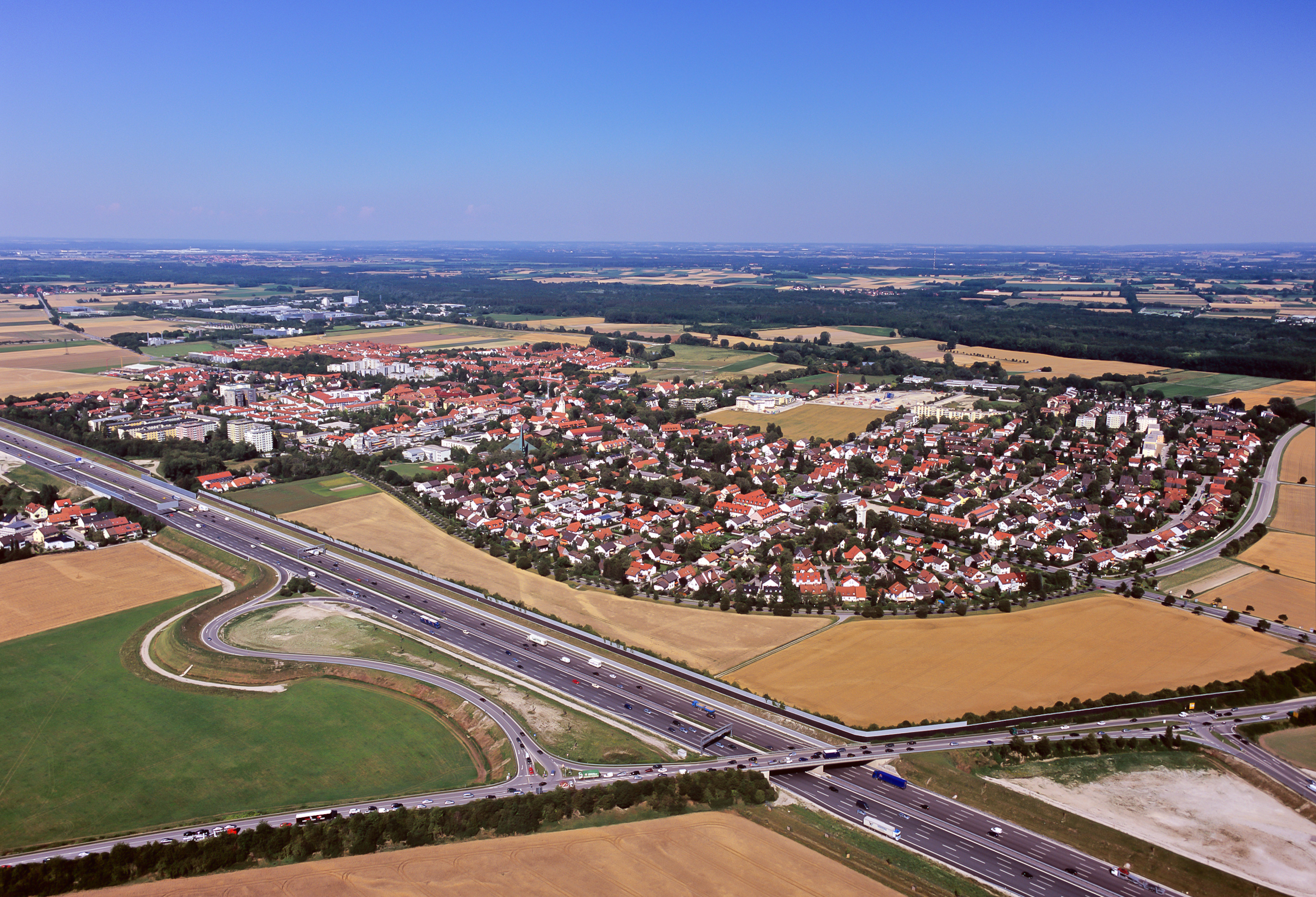 Aerial photograph of Garching town. Garching is situated 15 kilometres north of Munich. The motorway A9 from Munich to Berlin passes the western side of Garching. Many research facilities of the Munich universities and private companies reside in Garching.